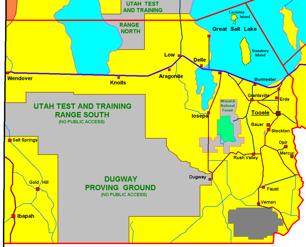 Tooele County , selfmade graphic by R.Blauert Dk4hb